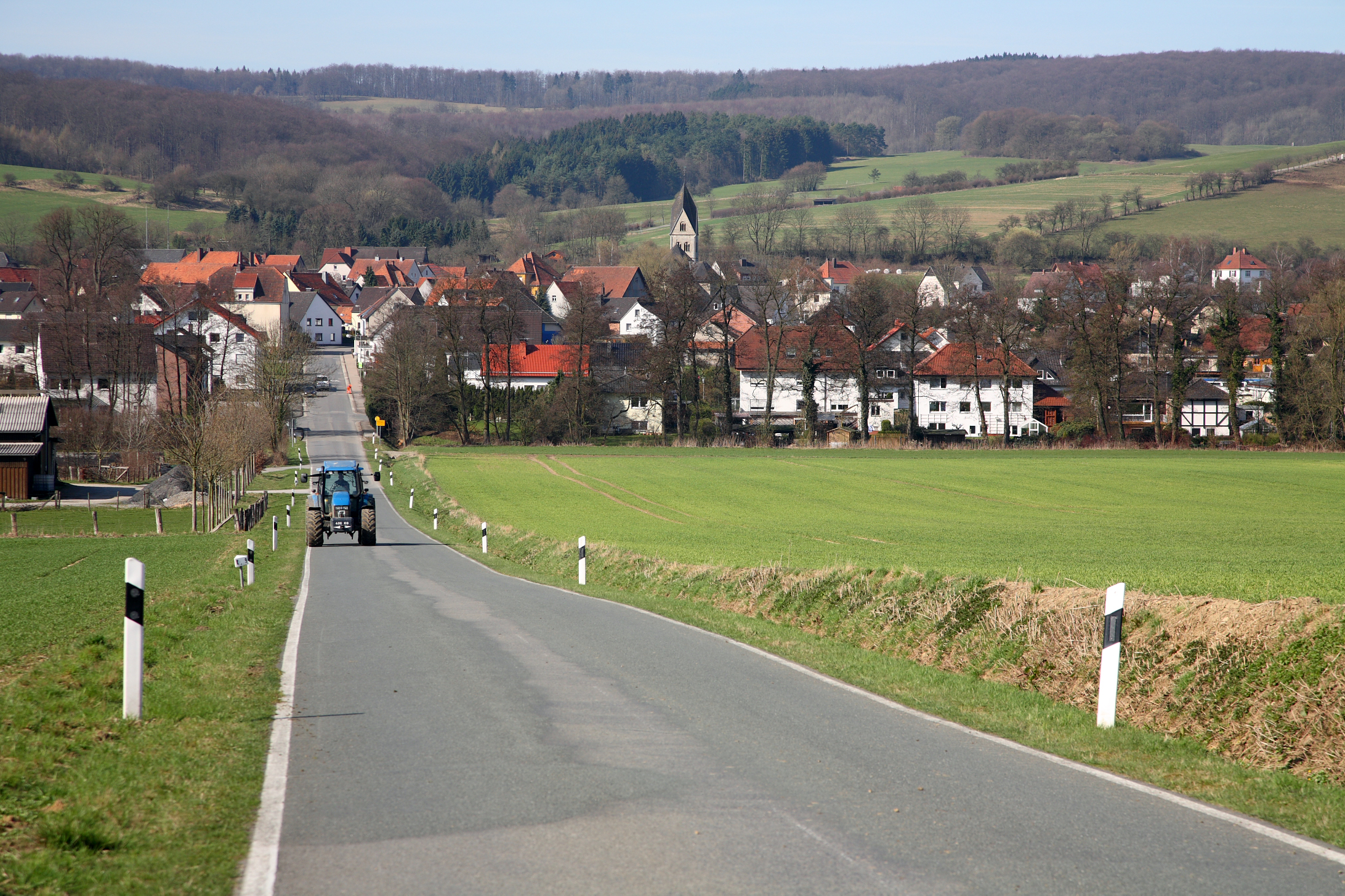 Westbound view down to Reelsen at Egge Mountains slope, town of Bad Driburg, District of Höxter, state of North Rhine-Westphalia, Germany.